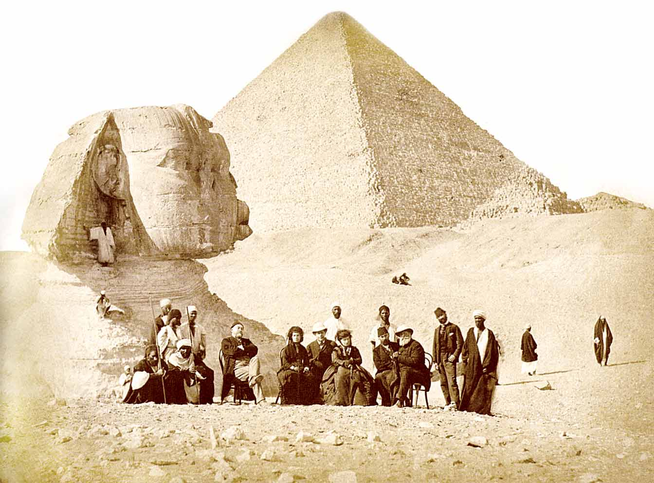 Seated in chairs, from left to right: Auguste Mariette, Dona Josefina da Fonseca Costa, lady-in-waiting of the Empress, Luís Pedreira do Couto Ferraz, Baron and later Vicount of Bom Retiro, Empress Teresa Cristina, an unidentified man and Emperor Dom Pedro II of Brazil, surrounded by local Egyptians during the Emperor's trip to Egypt in the end of 1871. Behind them can be seem the Great Sphinx of Giza and the Giza Necropolis.